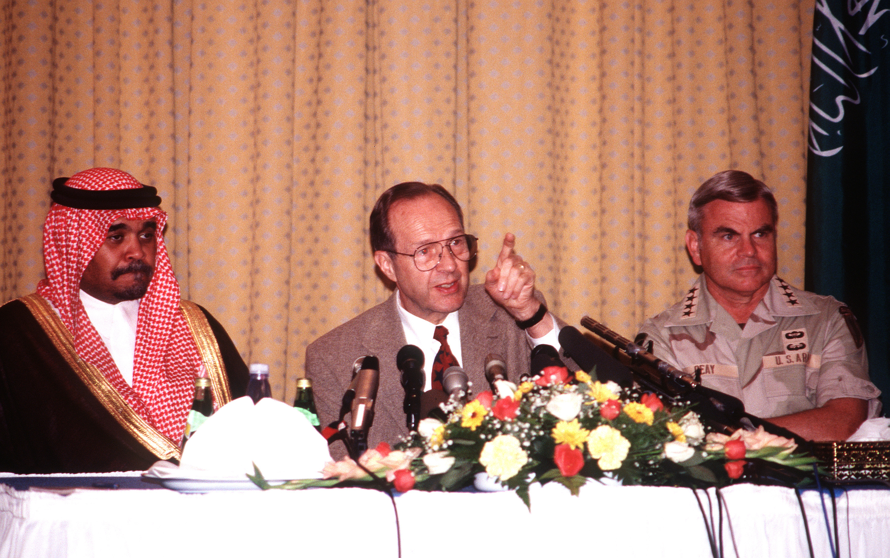 U.S. Secretary of Defense William J. Perry (center) emphasizes a point as he answers questions about the terrorist bombing at the Khobar Towers complex at a press conference. Flanking Perry are Saudfi Arabian Prince Bandar Bin Sultan (left) and GEN J.H. Binford Peay III., U.S. Army, Commander in Chief, U.S. Central Command.